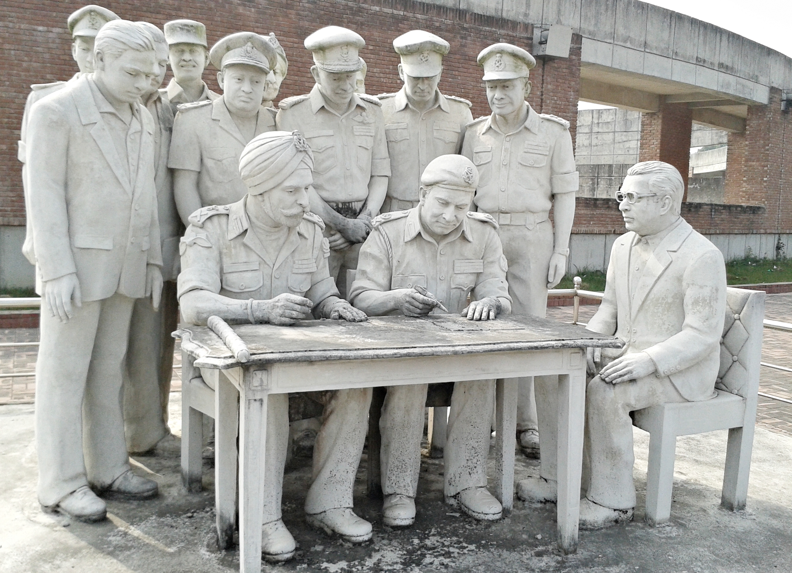 Surrender of the Pakistani occupation force at Racecourse Maidan on 16 December, 1971 Signaturies are the commander of the Allied forces Lt. General Arora and Lt. General Niazi, commander of the Pakistani forces.